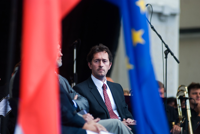 Gregor Virant, Slovenia, Ljubljana, 2010